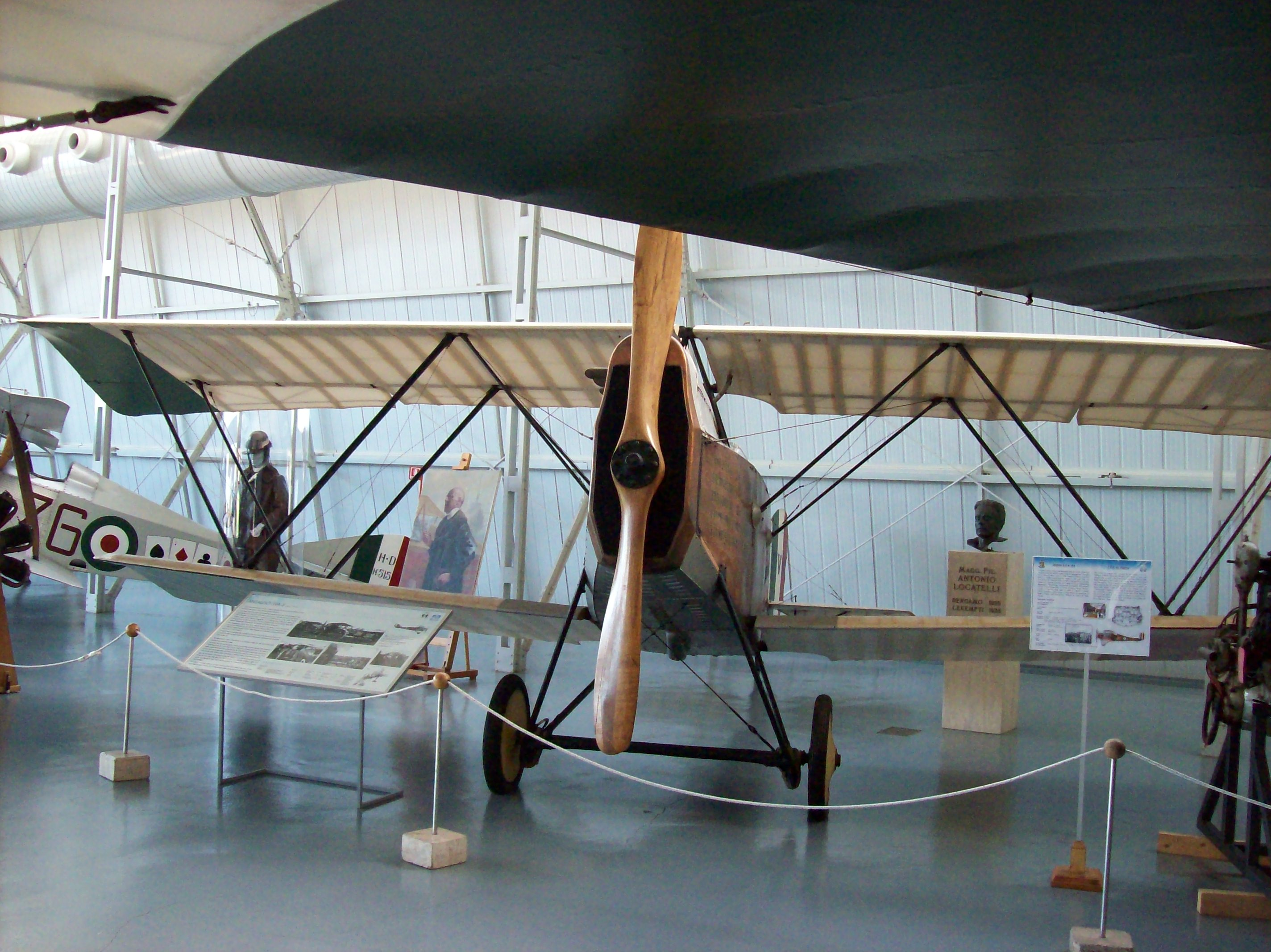 An Ansaldo SVA 5 airplane that took part to the Flight over Vienna during the WWI in 1918